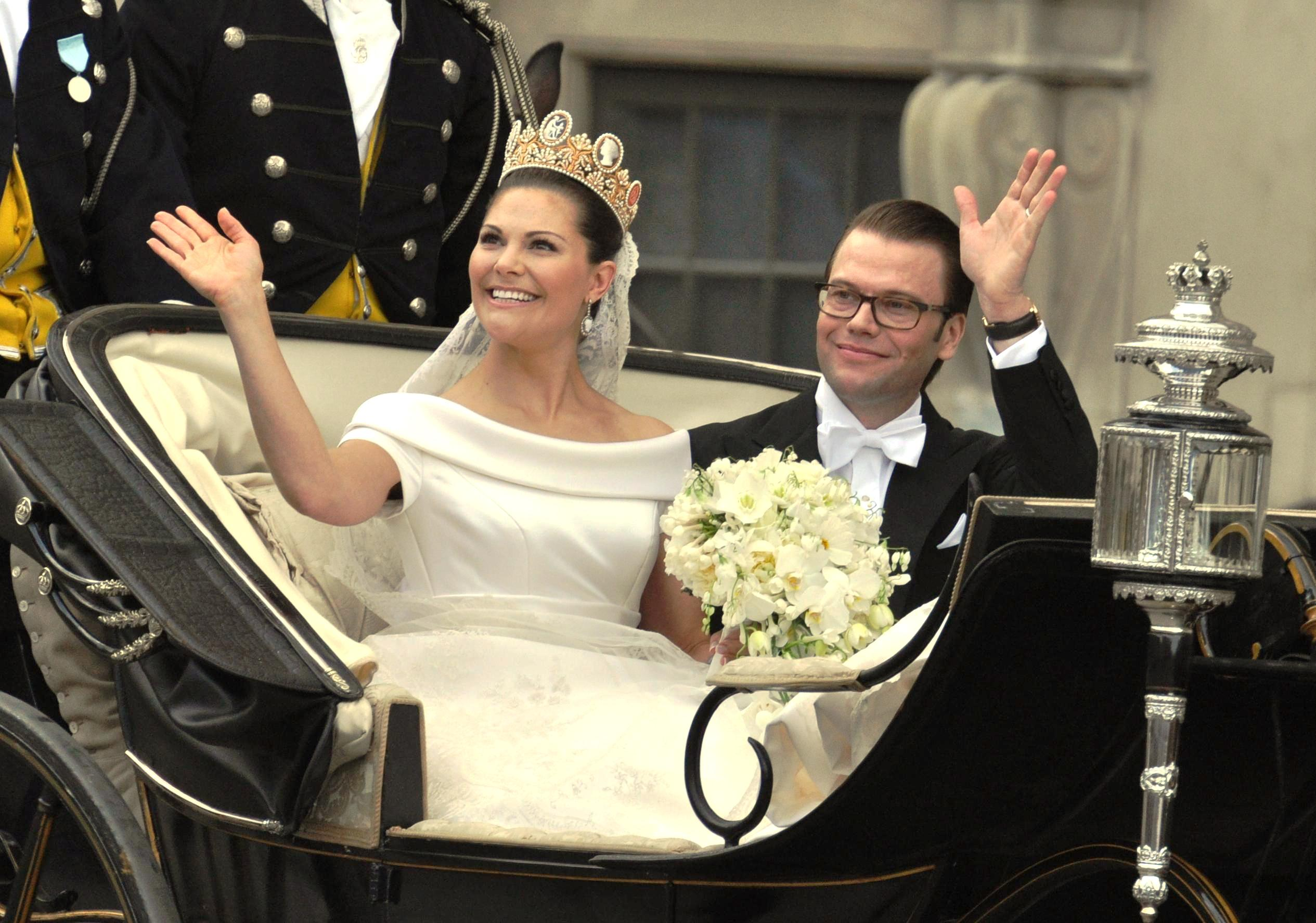 Wedding of Victoria, Crown Princess of Sweden, and Daniel Westling; Cortège at Slottsbacken